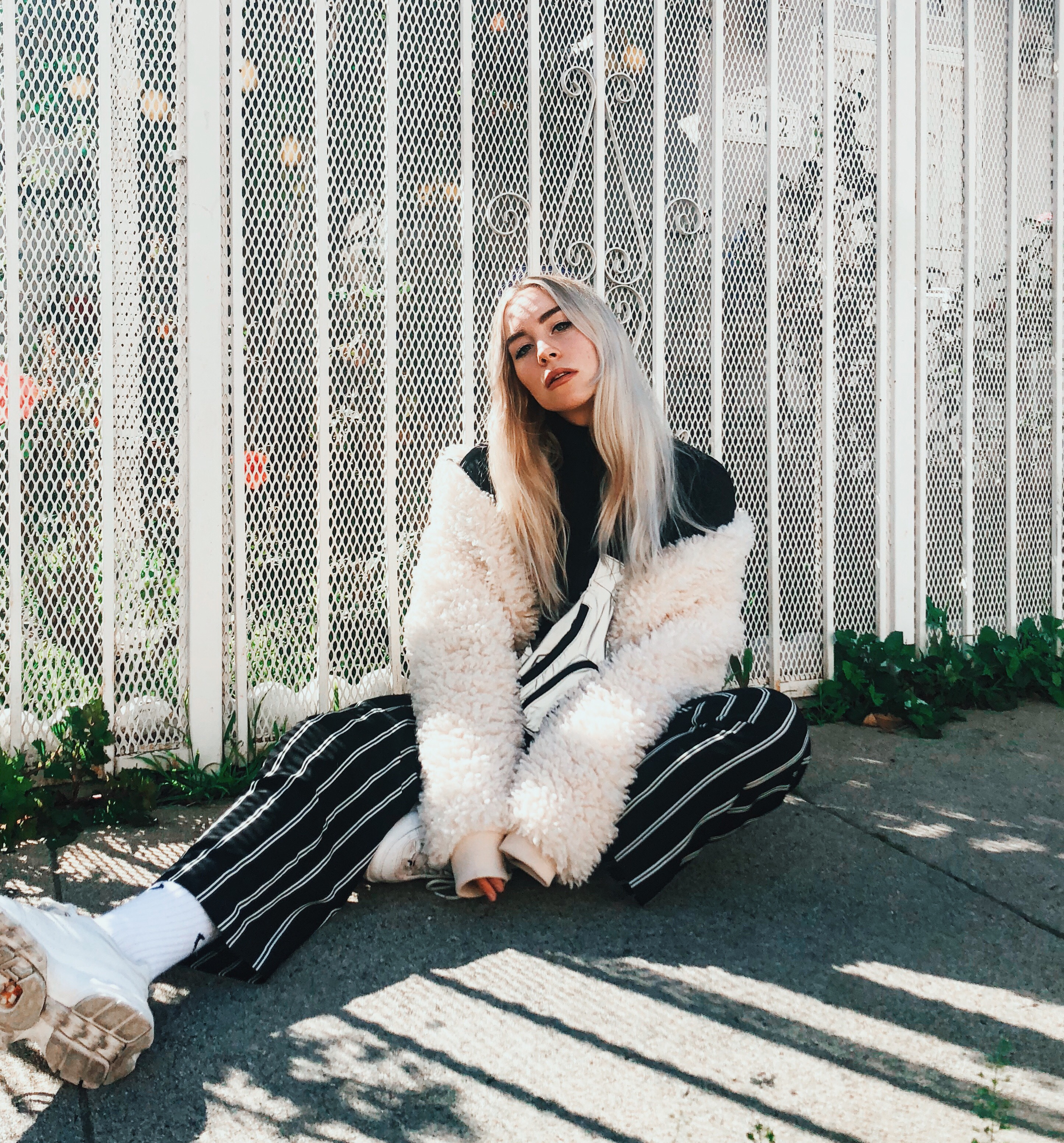 Shy Martin photoshoot LA